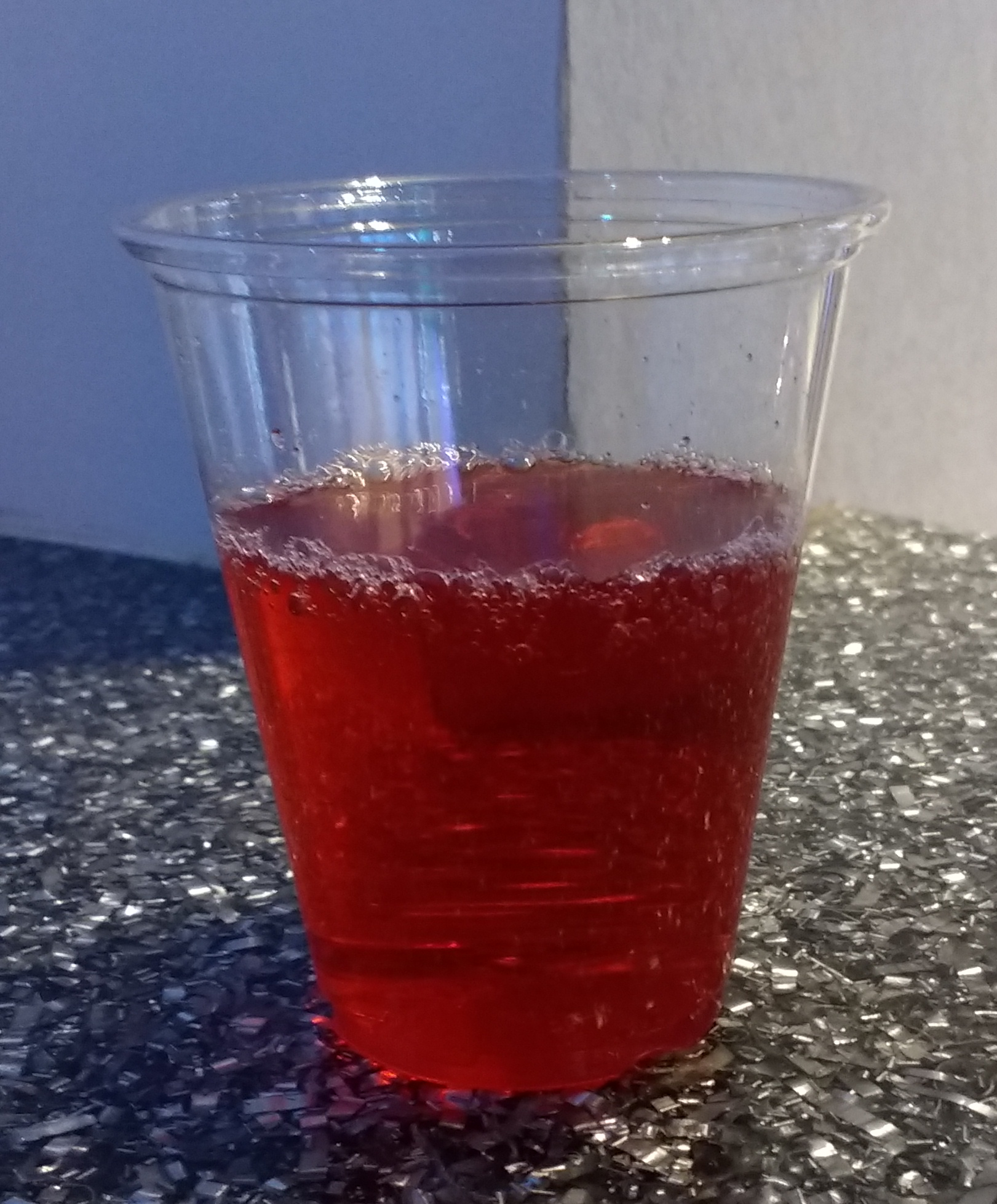 Ciel Aquarius from a soda fountain at the World of Coca-Cola museum in Atlanta.